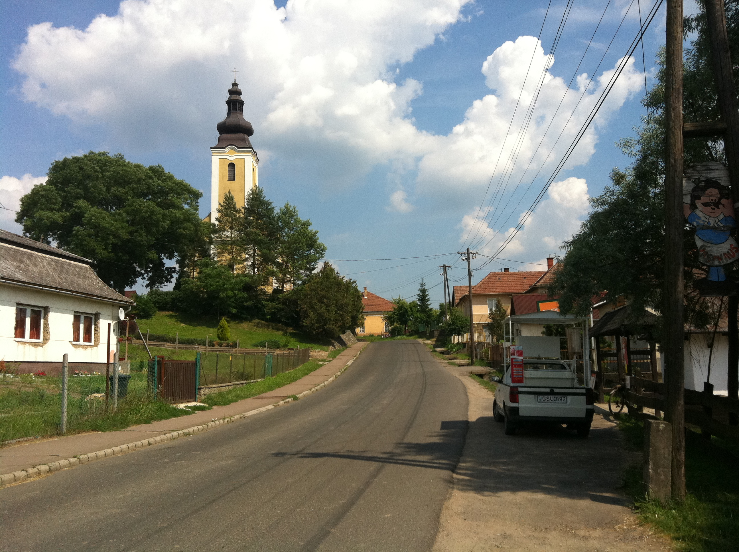 Karancskeszi, Hungary. View of the church from West.